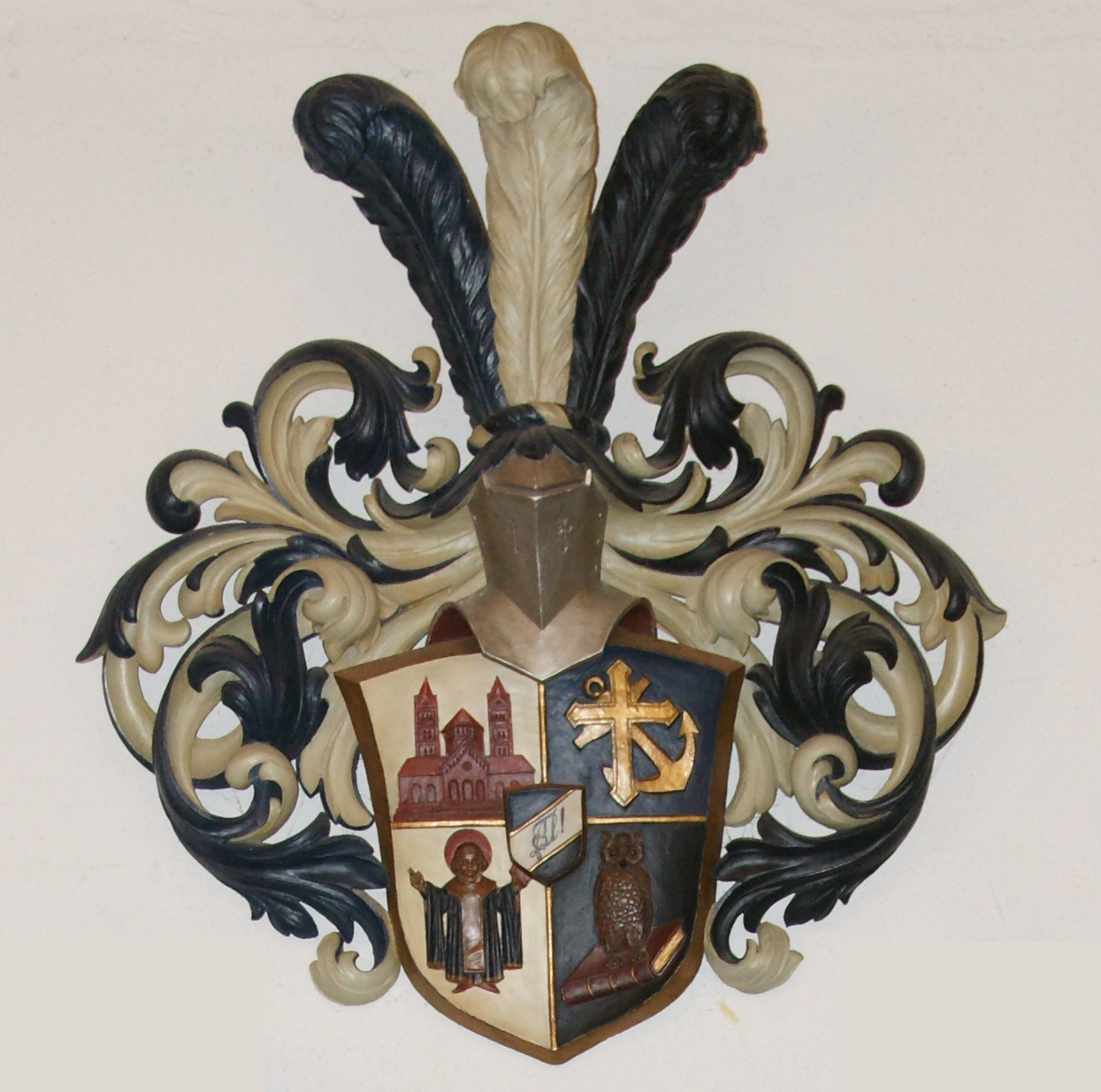 The coat of arms of the German fraternity K.S.St.V. Alemannia München